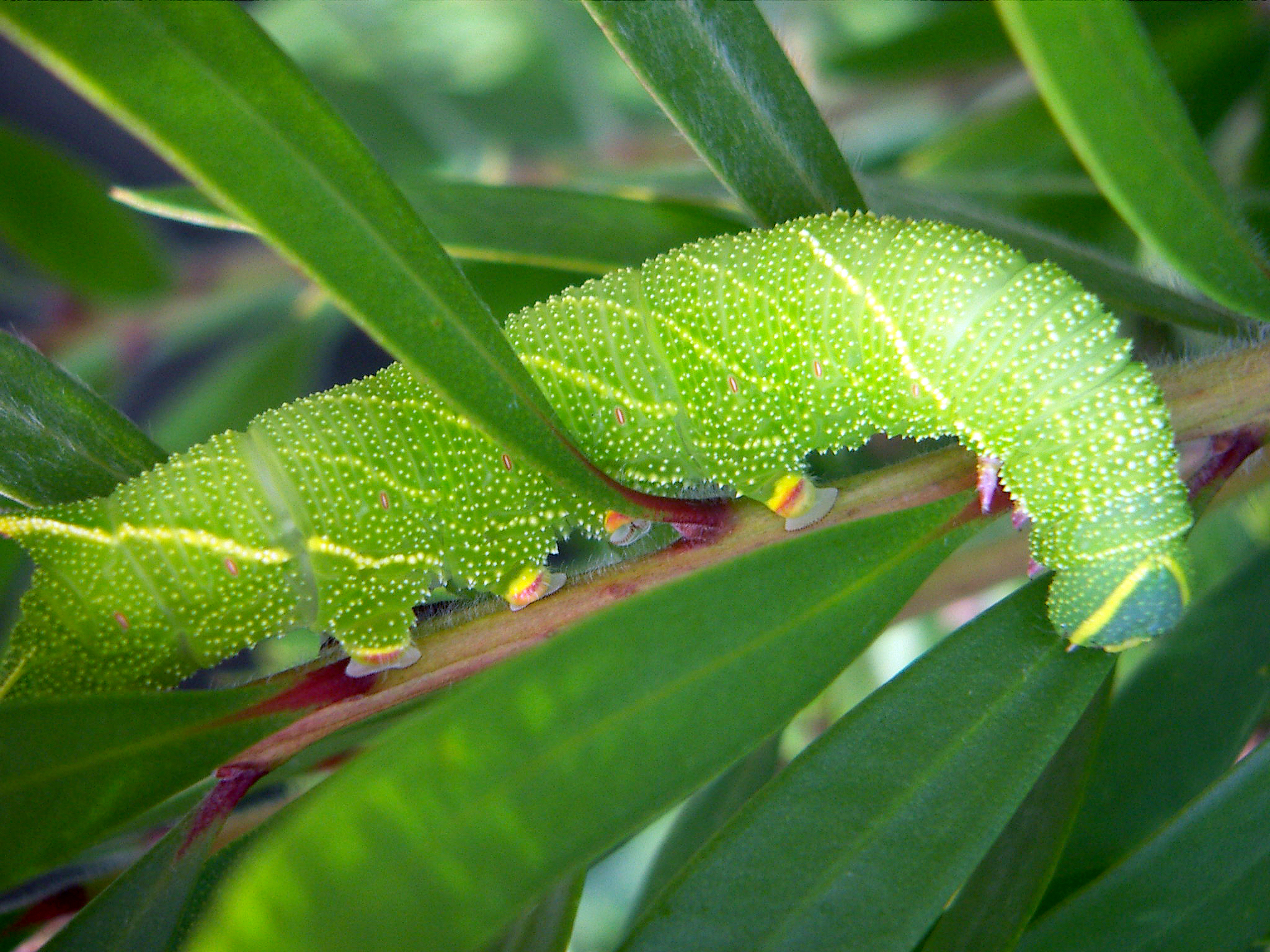 I own all the rights to this image as I took the photo myself. I hereby give permission to all who wish to use this image for informational purposes.